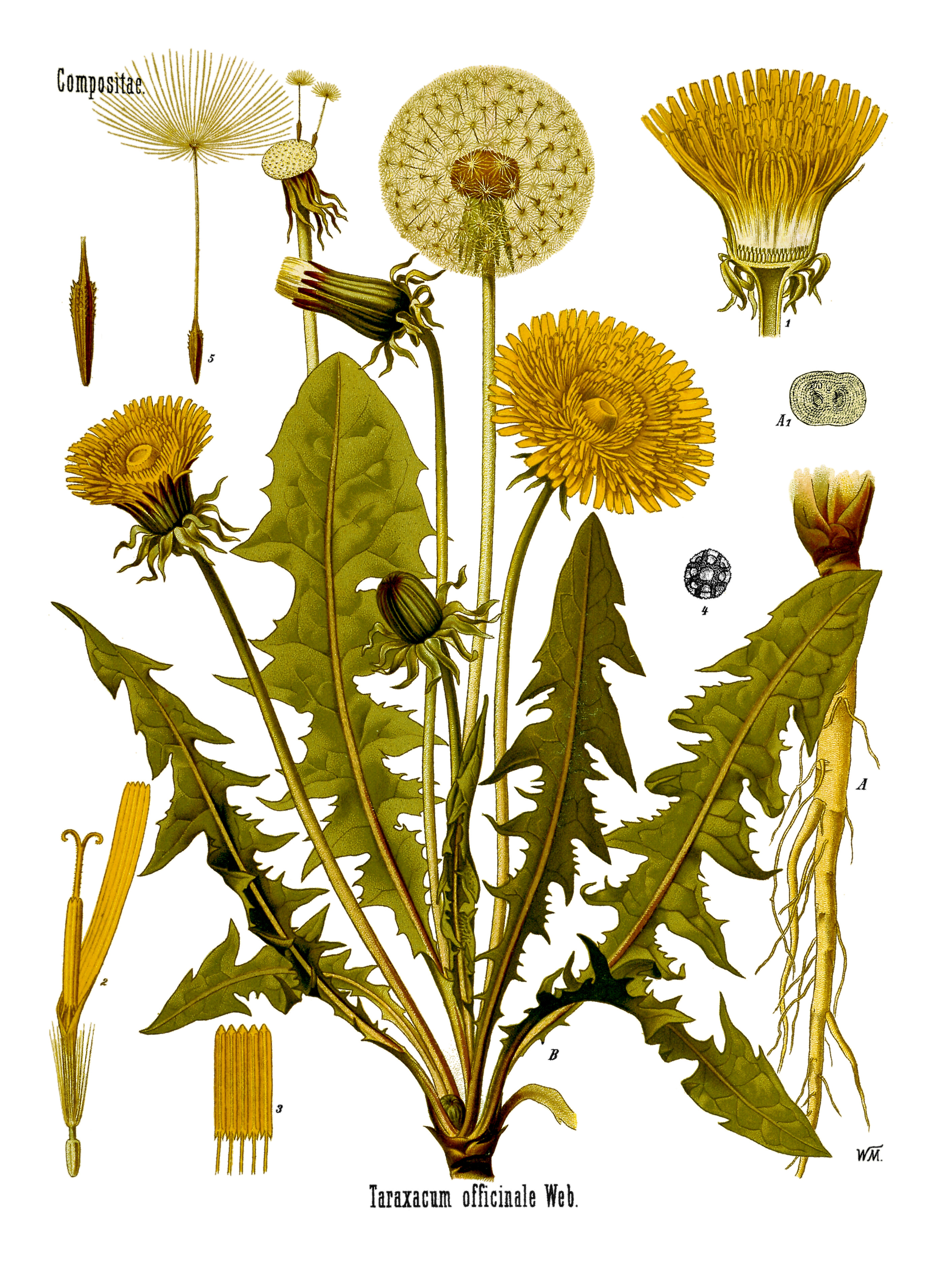 With captions.